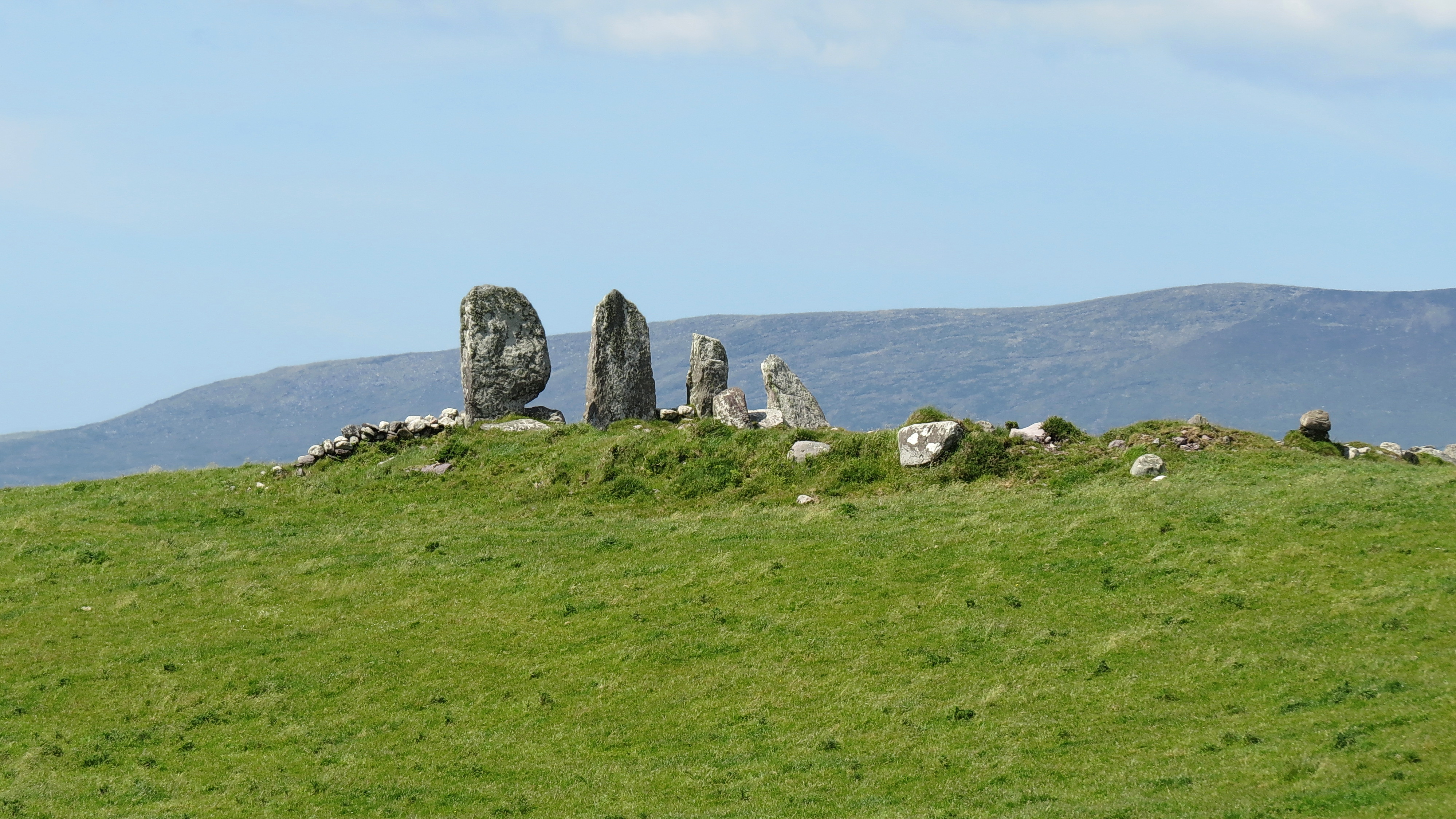 Eightercua Stone Alignment, Ring of Kerry, Co. Kerry, Ireland